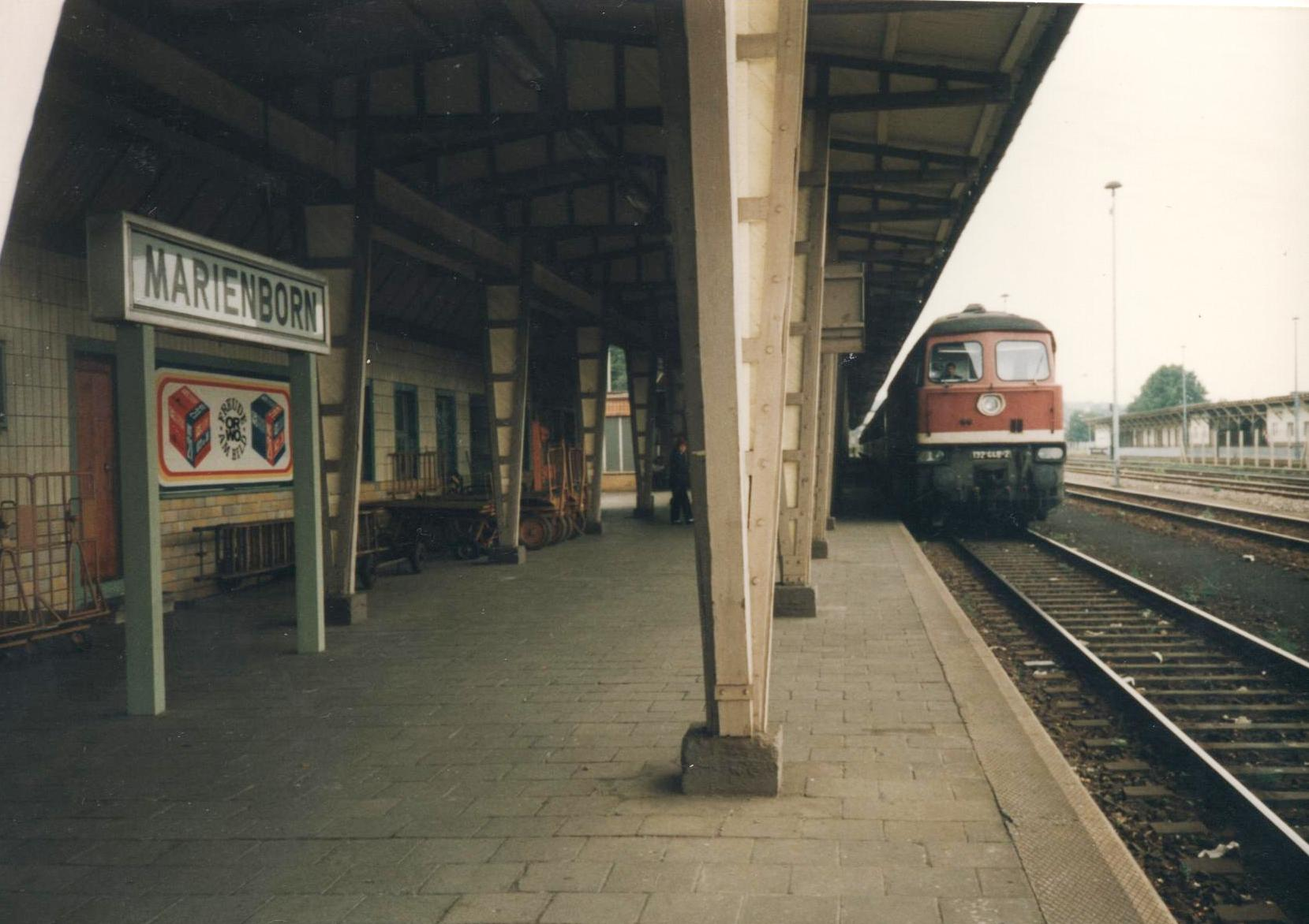 Border railway station Marienborn.